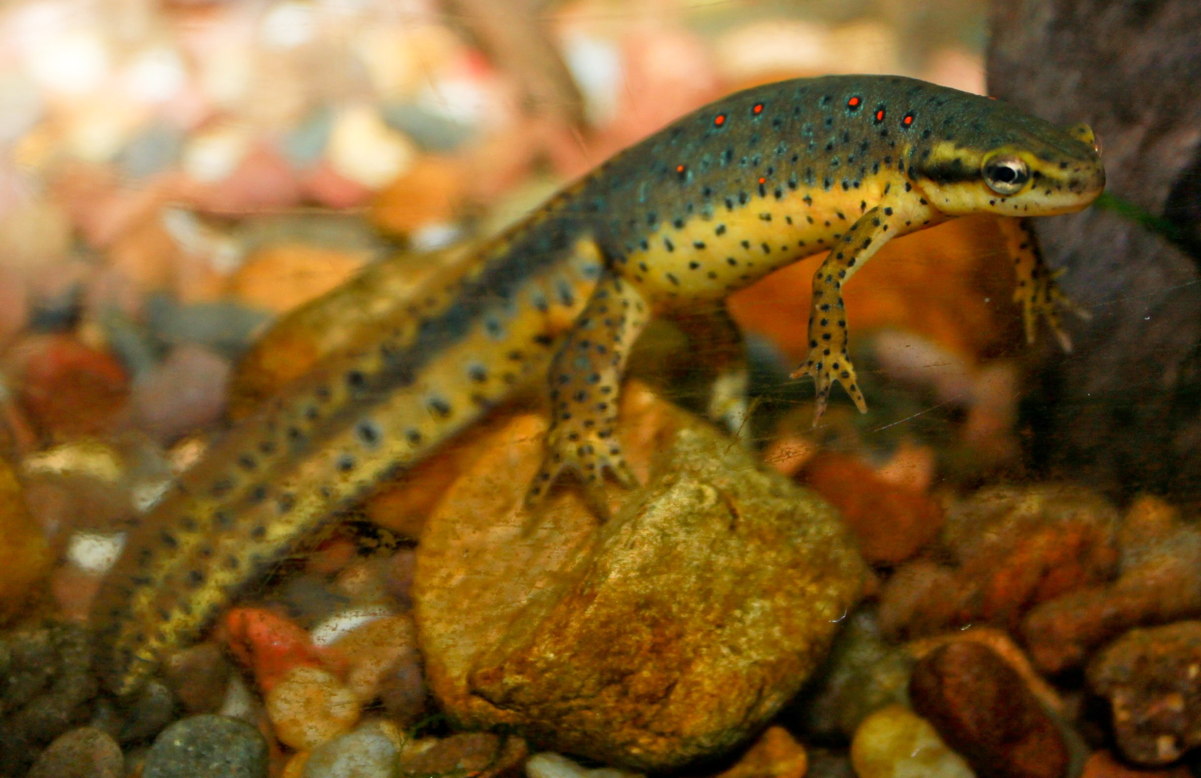 Crop of file in filename